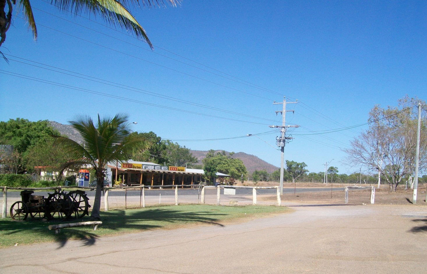 User:Bruceanthro's own photograph taken in October 2009 specifically to include in a Wikipedia article. Mount Carbine on the Mulligan Highway, Cape York Peninsula, Queensland (Route 81).